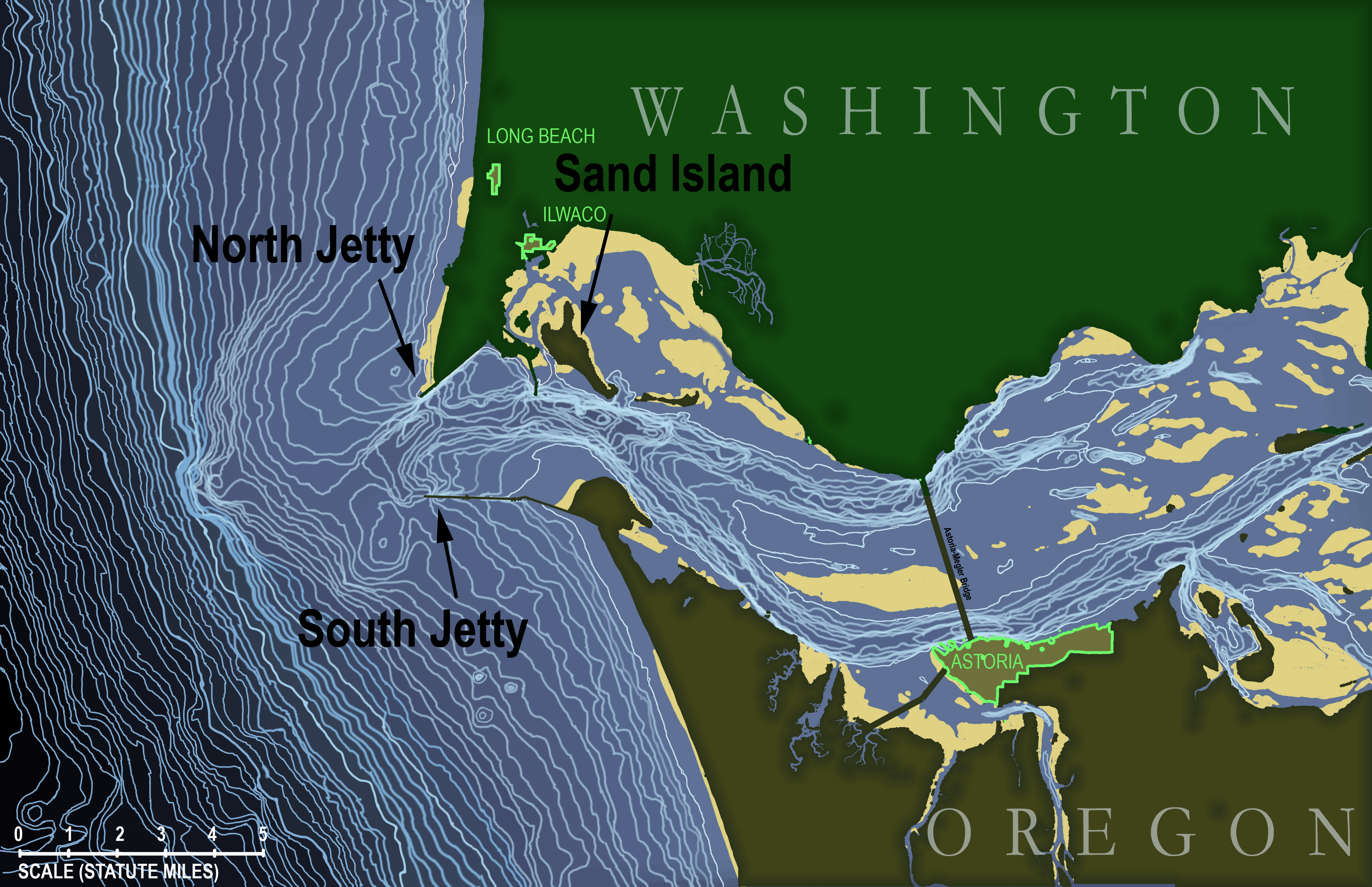 Topographic map of the underwater area in and around the mouth of the Columbia River in the state of Oregon, USA. Map is based on soundings in feet taken by the National Oceanic and Atmospheric Administration and published in NOAA navigational chart #18521, "Columbia River - Pacific Ocean to Harrington Point", August 2009 (original chart available here: which itself is a public domain image.Topographic lines on this map begin at a depth of 15 feet and occur at 5-foot intervals continuously down to 310 feet (i.e., the edge of the map).Land masses (states of Washington and Oregon) are shown in dark green with urbanized areas highlighted around the edge in bright green. Tidal sand bars are shown in yellow.